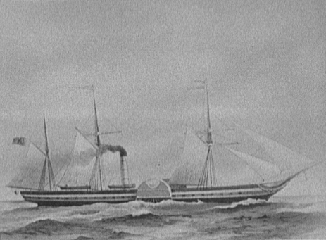 Painting of the Cunard transatlantic steamship Asia, launched in 1850. Asia was one of Cunard's later wooden-hulled paddle steamers, somewhat larger than the Britannia.